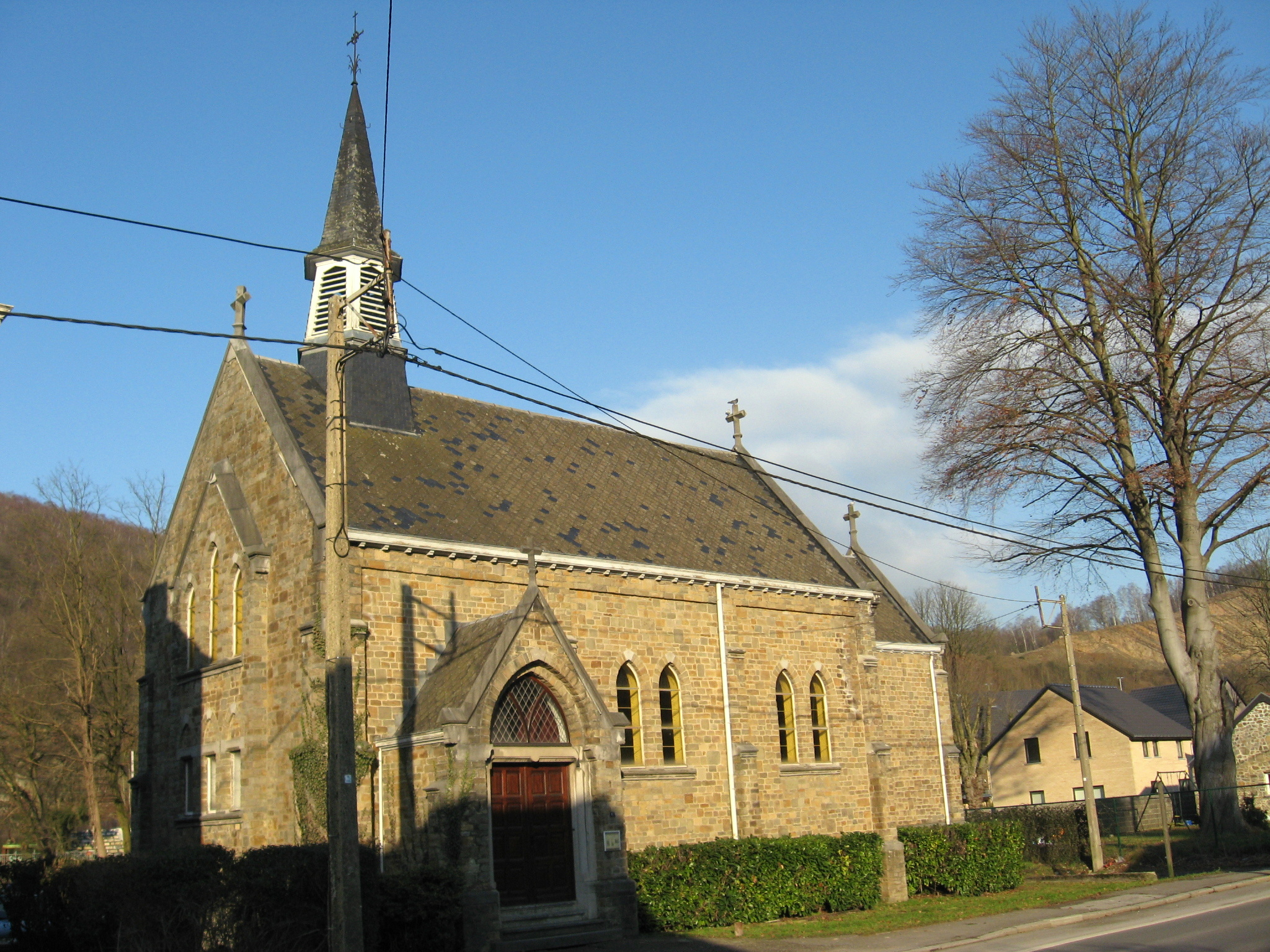 Chapel of ease of Saint Alfred and Saint George in Trooz, Forêt, Trooz, Liège, Belgium